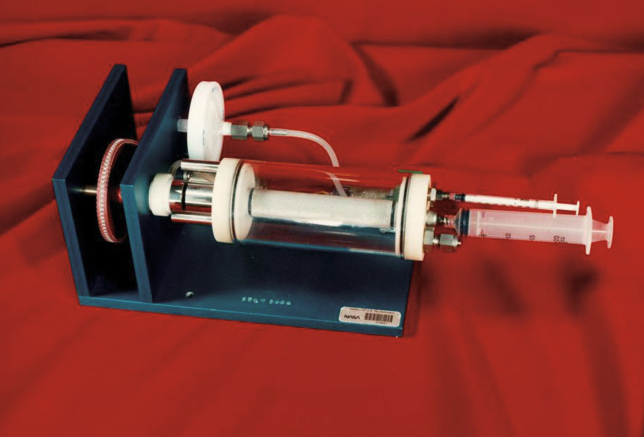 The Rotary Cell Culture System™ grows accurate, three-dimensional cells which researchers use to test new medical treatments. Johnson's unvarying force of discovery also led to the development of a bioreactor to study the impact of microgravity on cellular and tissue growth on Earth and in space. NASA granted biotech startup Synthecon,TM Inc., an exclusive license to develop a rotating bioreactor, called the Rotary Cell Culture SystemTM (RCCS), that allows researchers to grow more accurate, three-dimensional cells they can then use to test new medical treatments without risking harm to their patients. Scientists and clinicians worldwide are using the RCCS bioreactors for a variety of applications, such as growing normal human tissue in vitro for testing of therapeutic drugs or for growing replacement tissue such as liver, skin, and bone marrow. The RCCS bioreactor provides the research community with an excellent in vitro environment for culturing cells such as human tumor, viruses, and cells that produce valuable bio-products including proteins, enzymes, and hormones. Research centers currently using the RCCS bioreactor include the Cell & Gene Therapy Institute in San Antonio, Texas; the National Institutes of Health in Bethesda, Maryland; the U.S. Food and Drug Administration; and the U.S. Army Medical Research Institute of Infectious Diseases at Fort Detrick, Maryland.